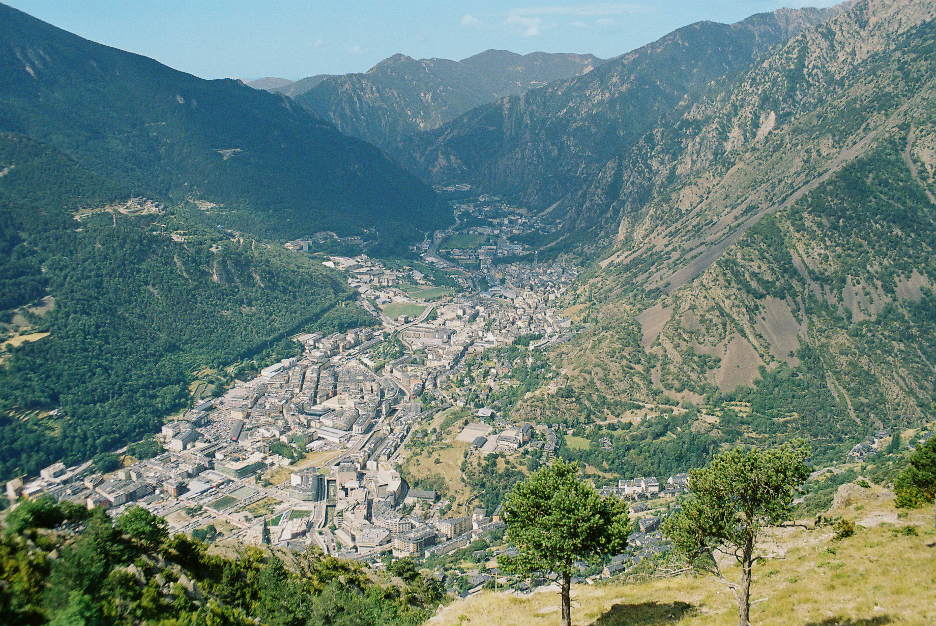 View from the north of the city of Andorra la Vella towards Santa Coloma